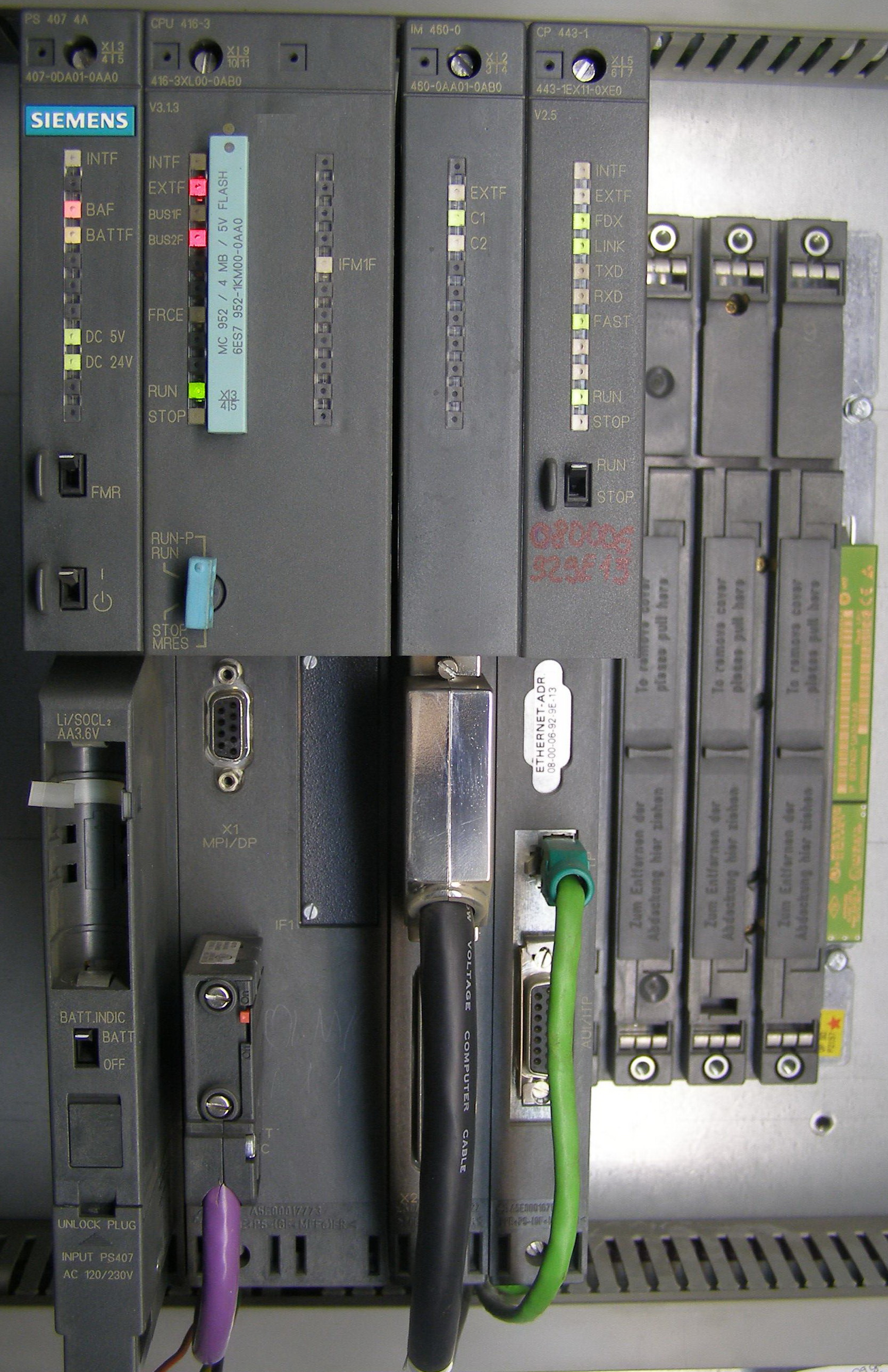 CPU 416-3 from series Siemens Simatic S7-400.